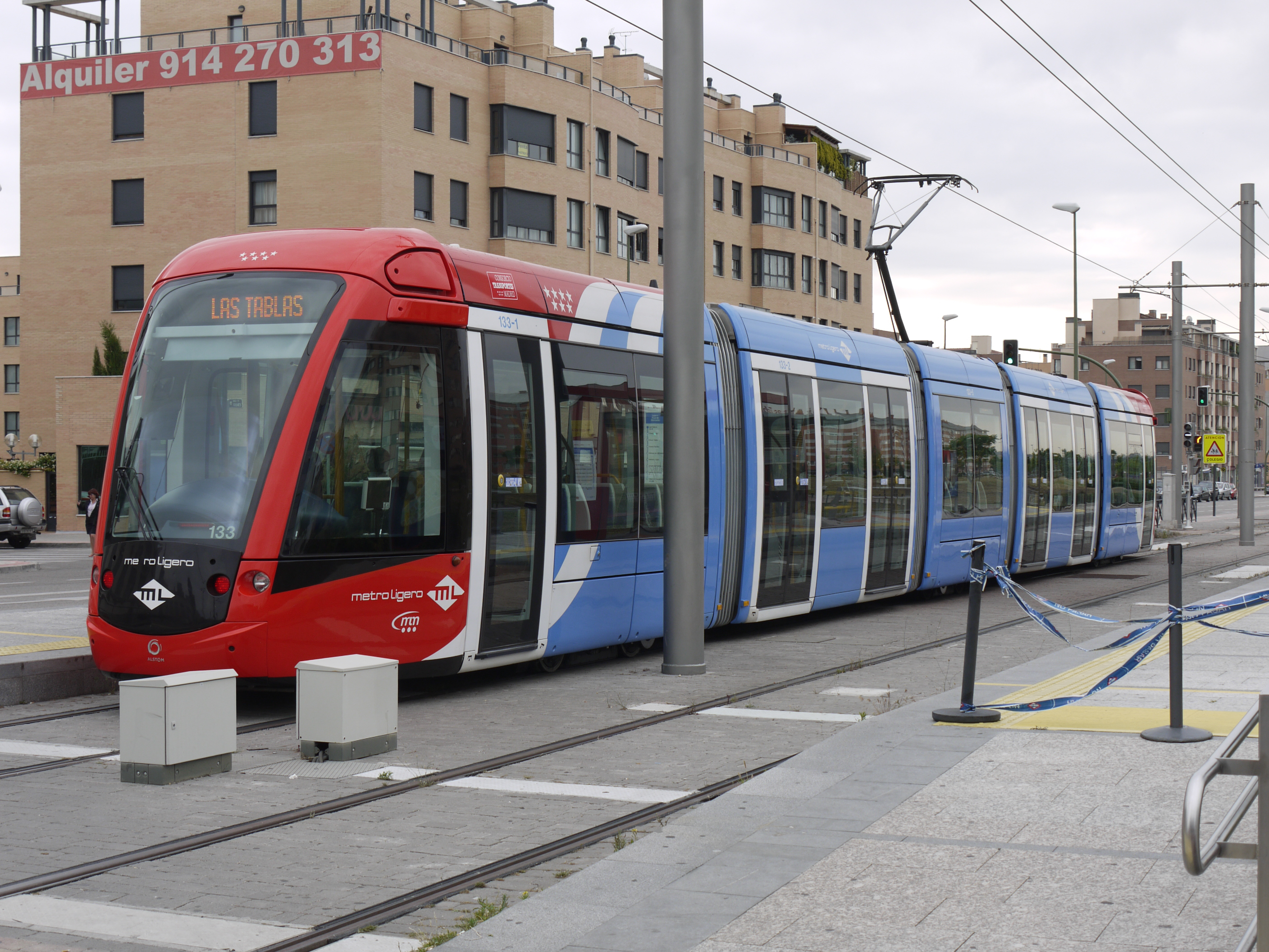 Metro Ligero at Las Tablas, Madrid.